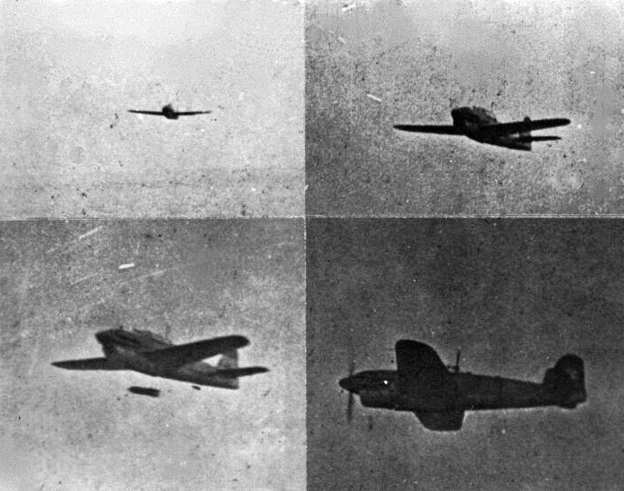 A Japanese Yokosuka D4Y1 Suisei (Allied reporting name "Judy") attacking the U.S. Navy aircraft carrier USS Lexington (CV-16) off Truk, 29 April 1944. The carrier was not hit.